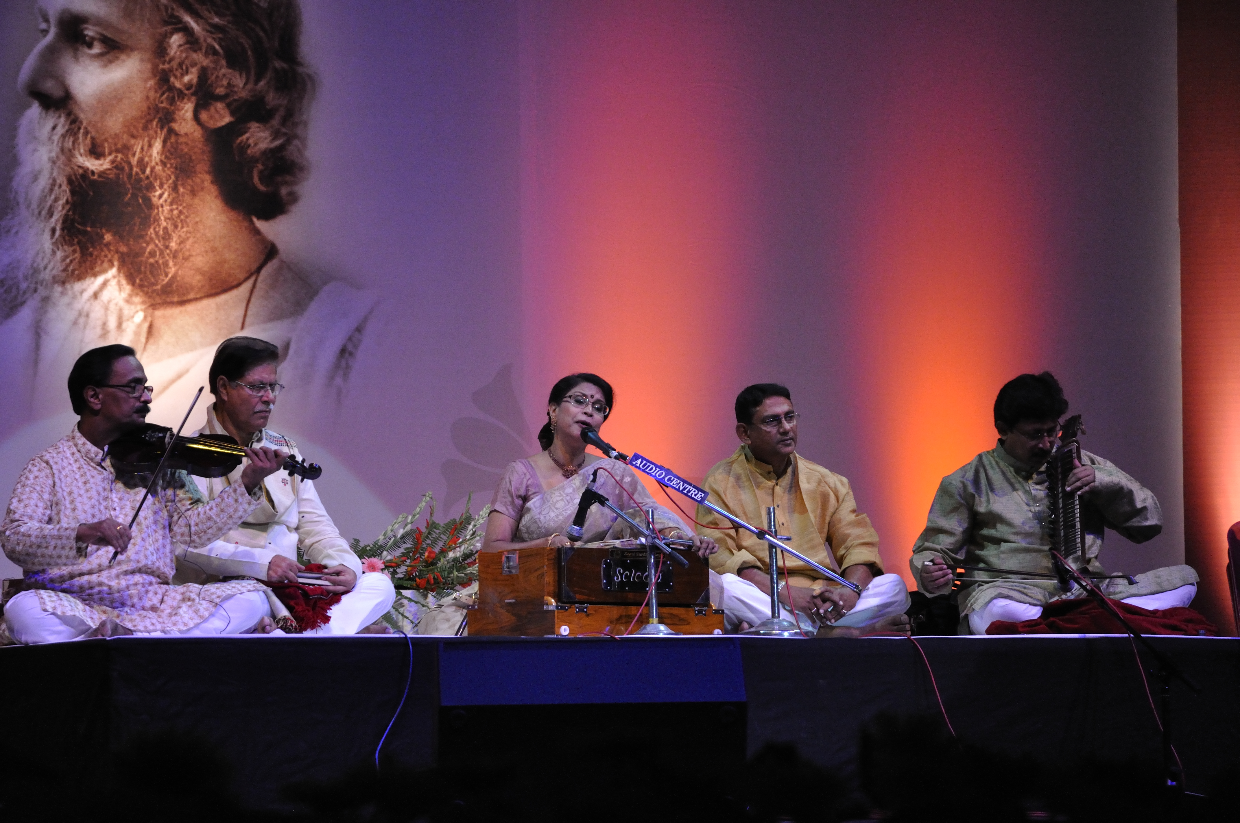 Commemoration of 150th birth anniversary of Rabindranath Tagore, organized by the Ministry of Culture, Government of India. It was an Indo-Bangladesh joint celebration, held at the Science City, Kolkata on 9 may, 2011.